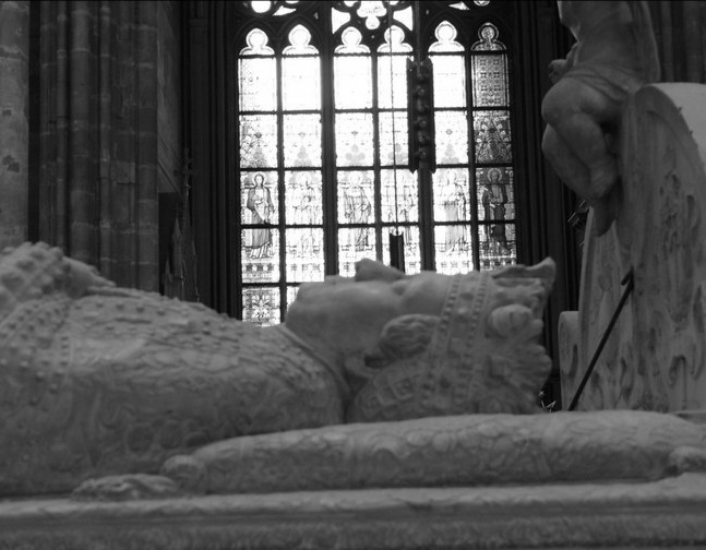 Anna of Bohemia and Hungary